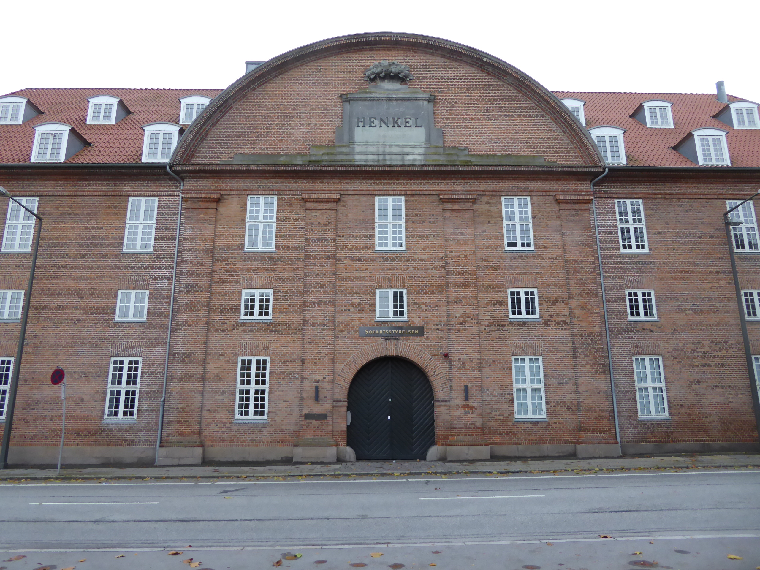 Head office of the Danish Maritime Authority - The former Henkel headquarters on Carl Jacobsens Vej 31, Valby, Copenhagen, Denmark.